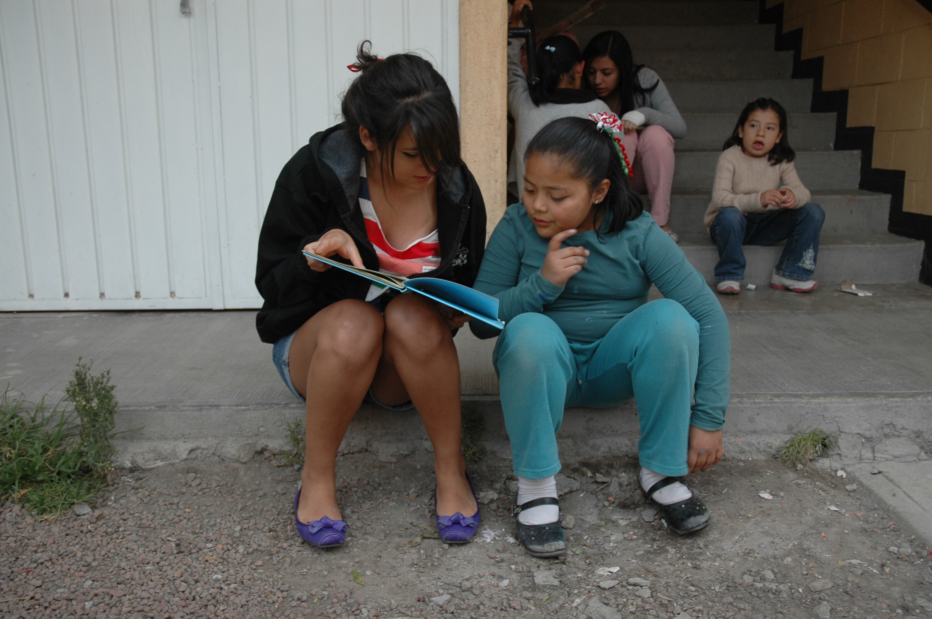 Visit from ITESM Campus Ciudad de México students to a foster home for girls (Casa Hogar de las Niñas) in Tlahuac, Mexico City